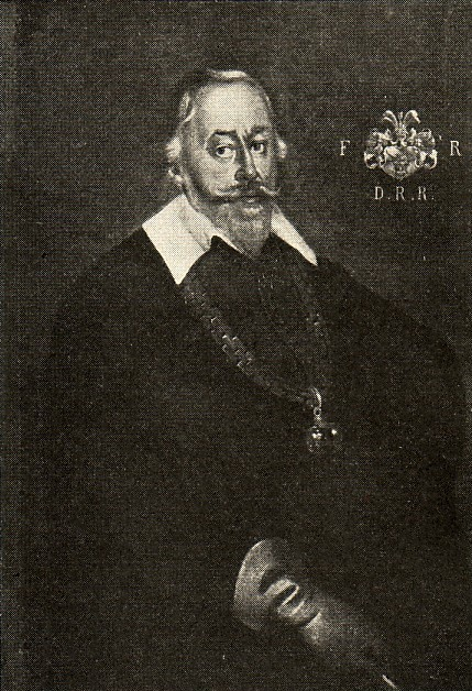 Frederik Pedersen Reedtz, 1586-1659